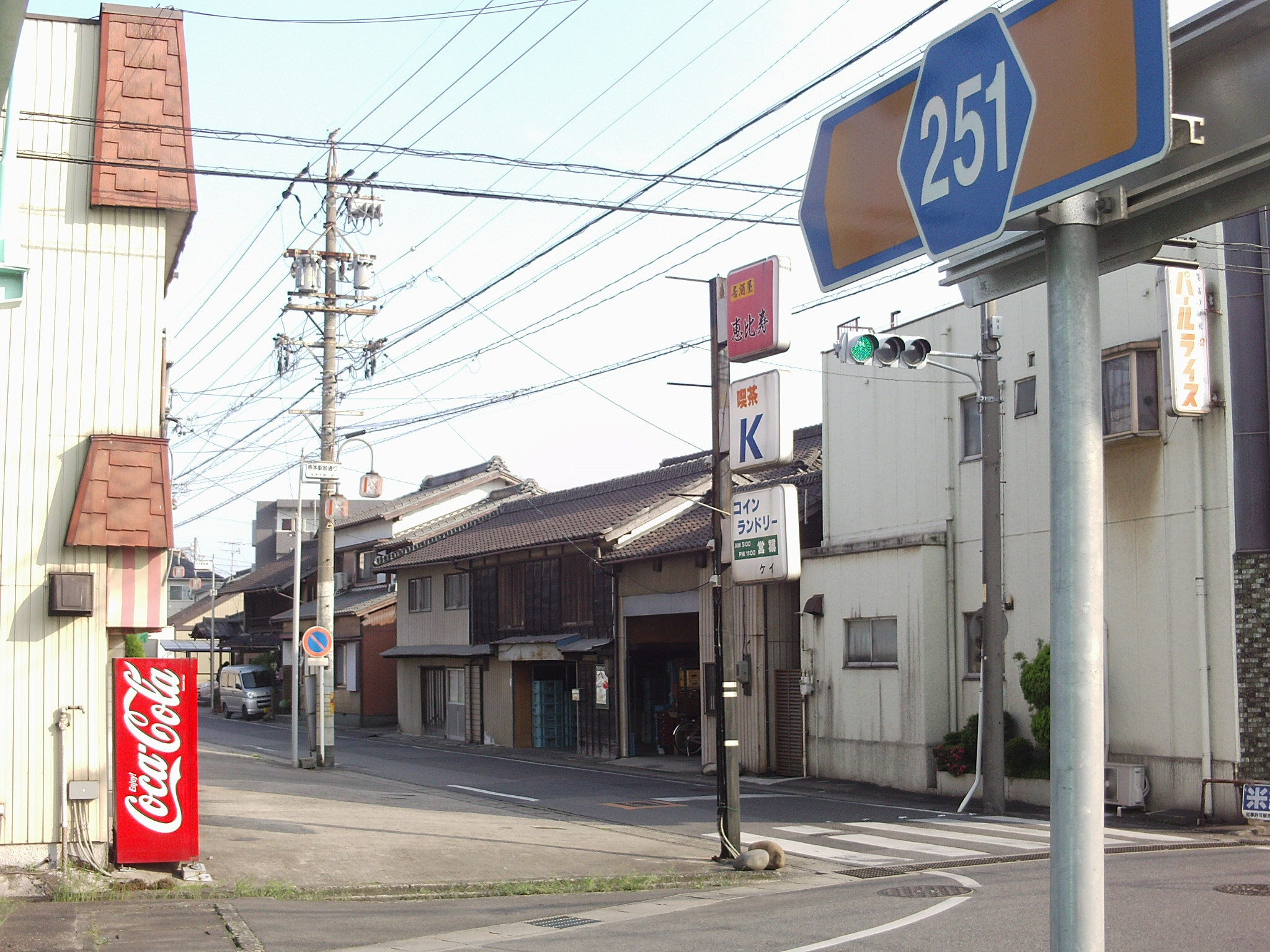 Ending point of Aichi prefectural road No.251 in Yawata, Chita, Aichi.